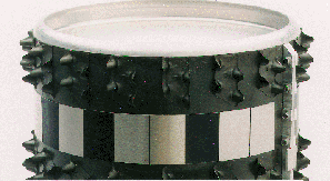 Mars Pathfinder Wheel Abrasion Experiment